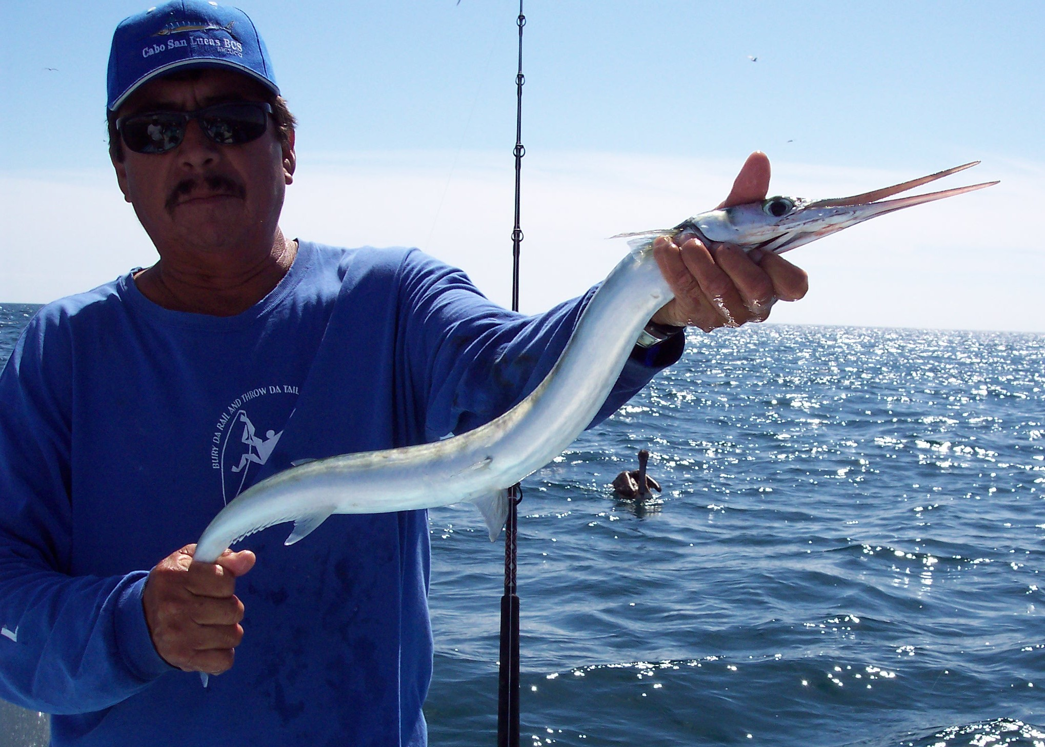 Californian Needlefish